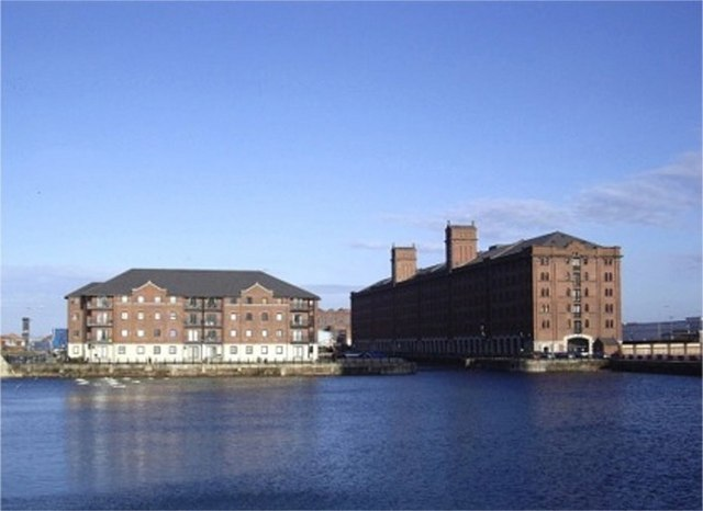 Princes Half tide Dock and dockside apartments